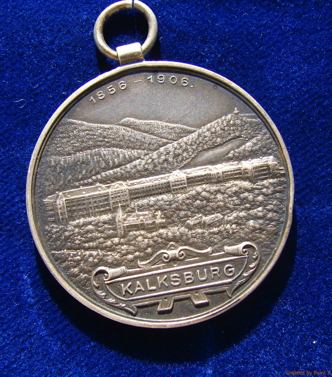 Medallion d.= 36mm. 19 g Ag View of the School within mountains near Vienna, "KALKSBURG" in exergue, curved above "1856 - 1906."/ Maria Immaculata standing on Satan, around: "TOTA PULCHRA ES AMICA MEA ET MACULA NON EST IN TE". Wurzbach 4201. Condition: EXTREMELY FINE, original loop, old patina.